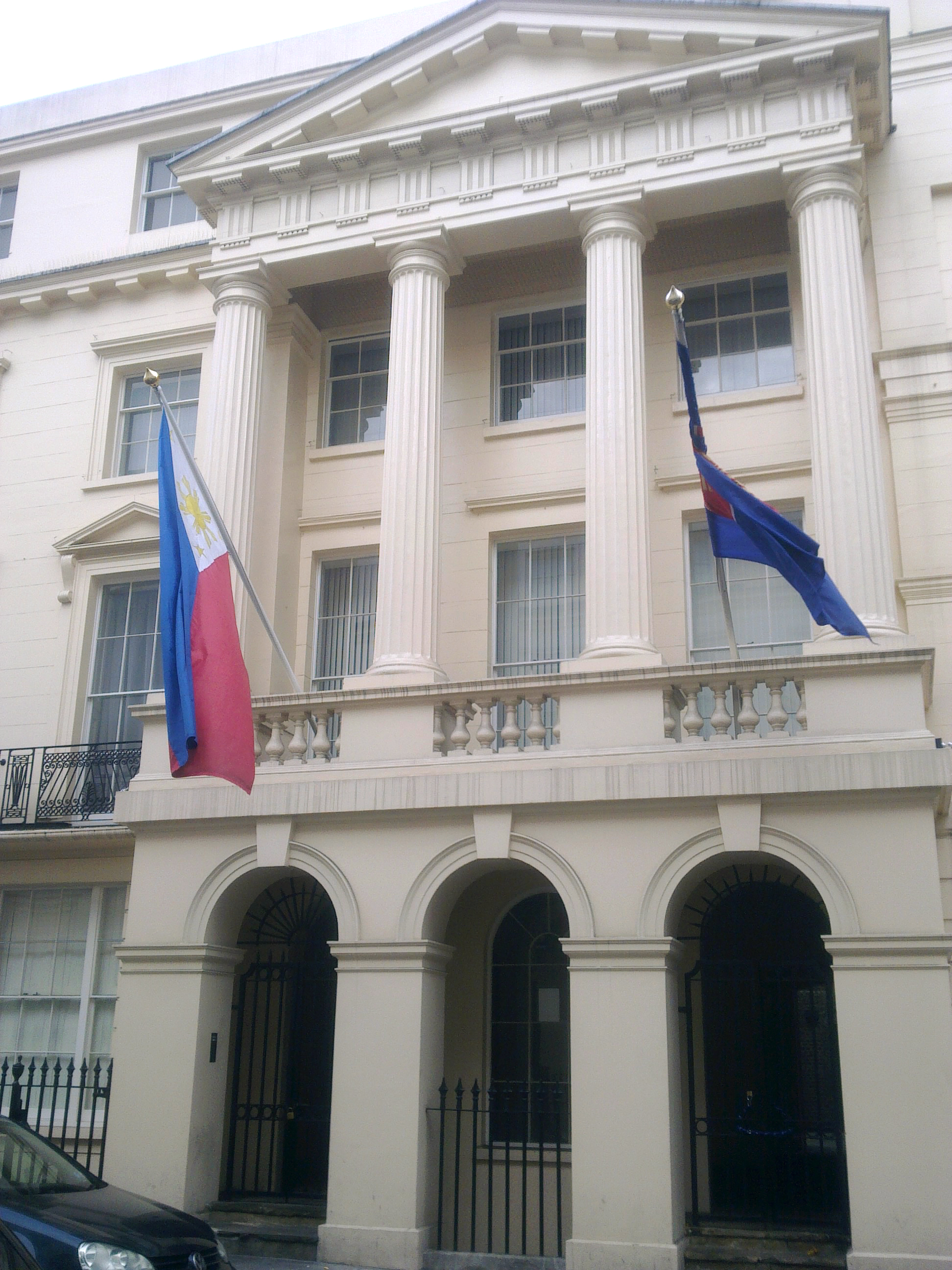 Embassy of the Philippines in London 1